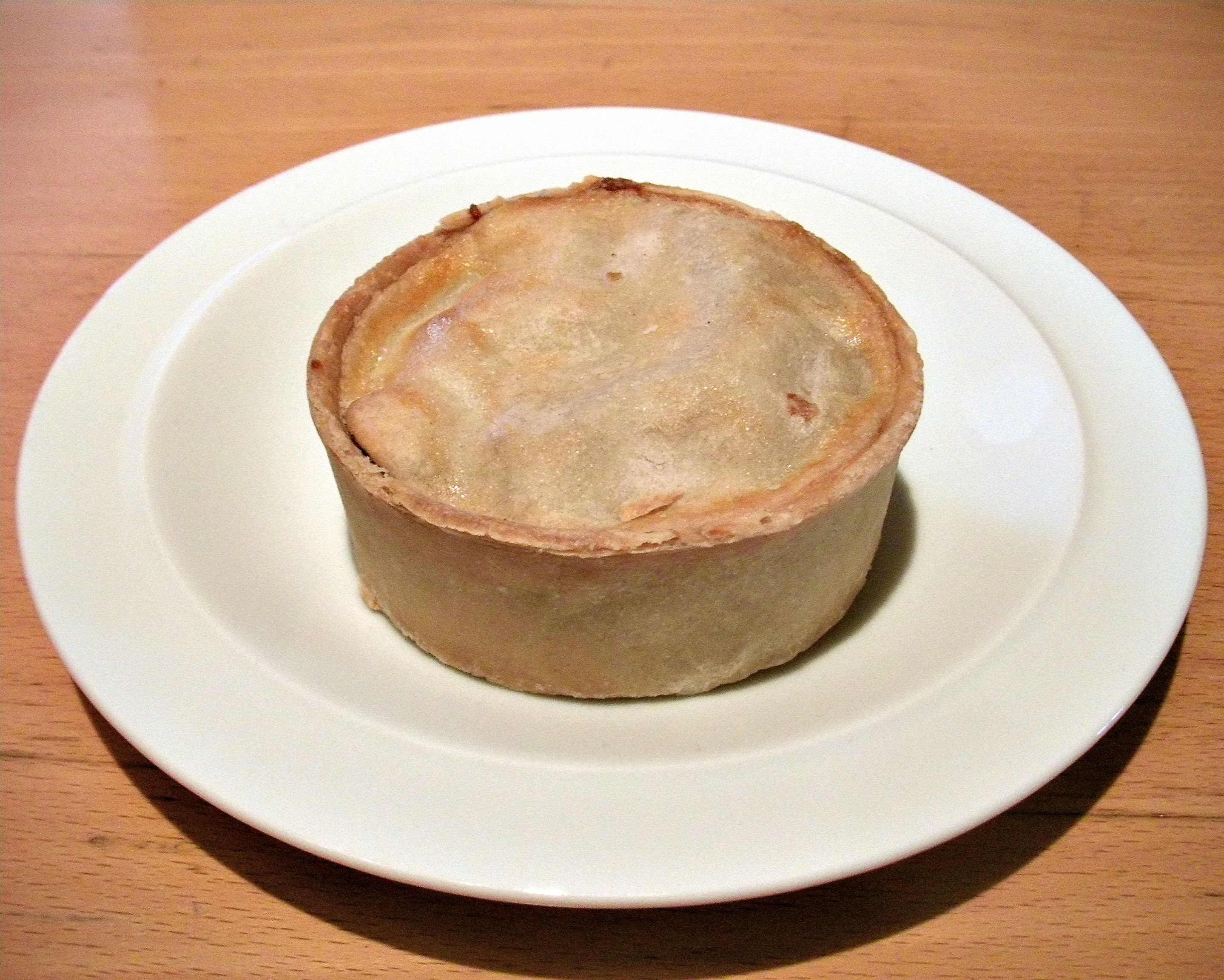 Scotch Pie purchased from Dalbeattie Fine Foods (